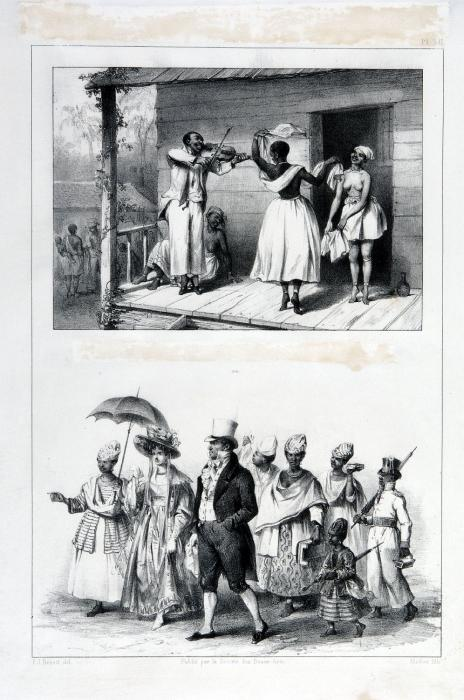 Lithos representing dancers and churchgoers